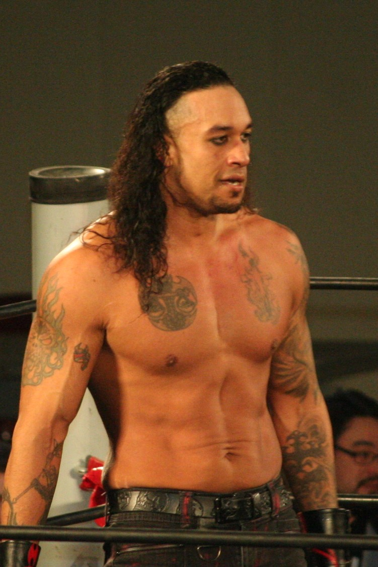 Punishment Martinez at Ring of Honor's Honor Reigns Supreme event in Concord, North Carolina in February 2017.